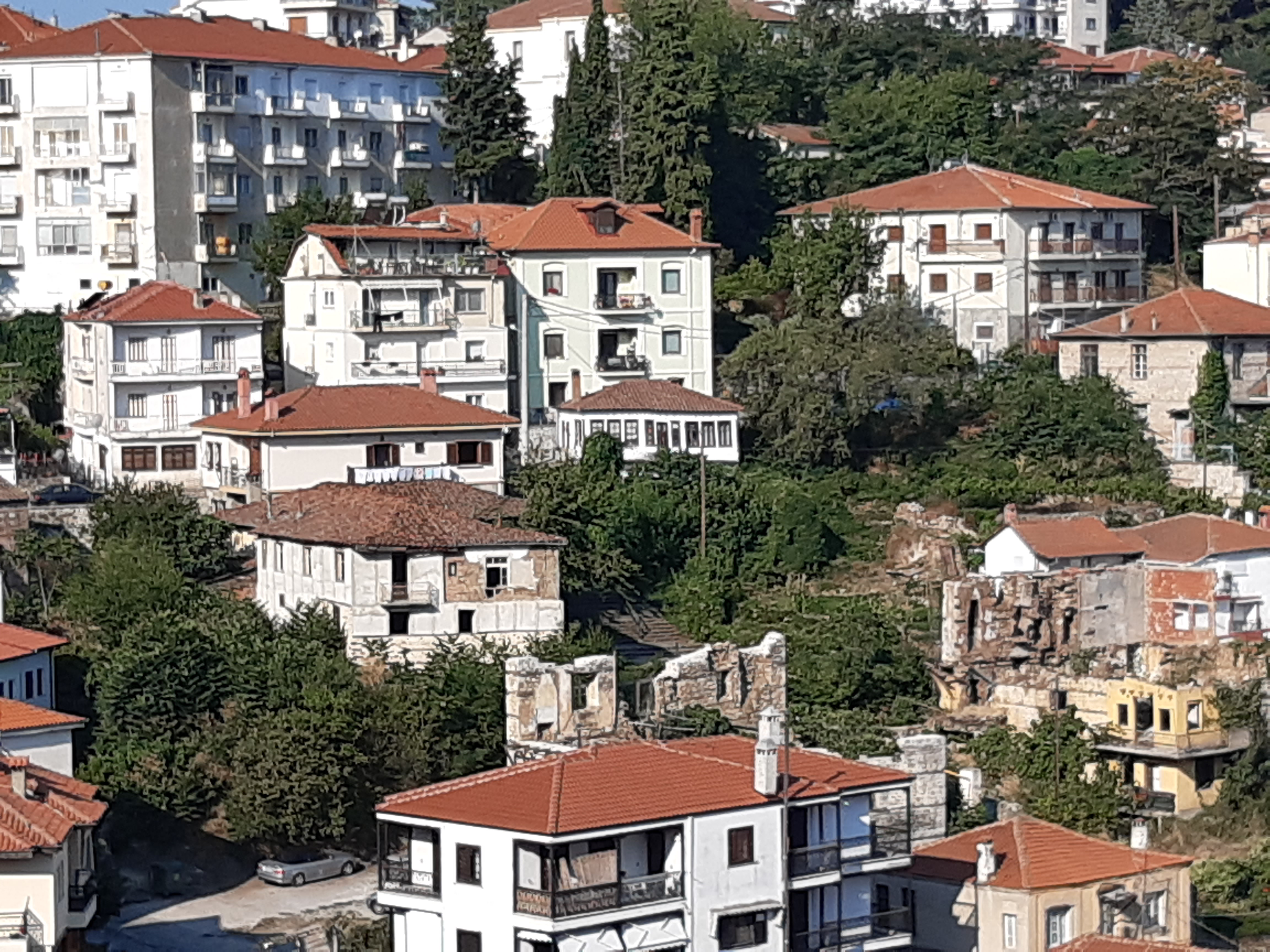 Apozari